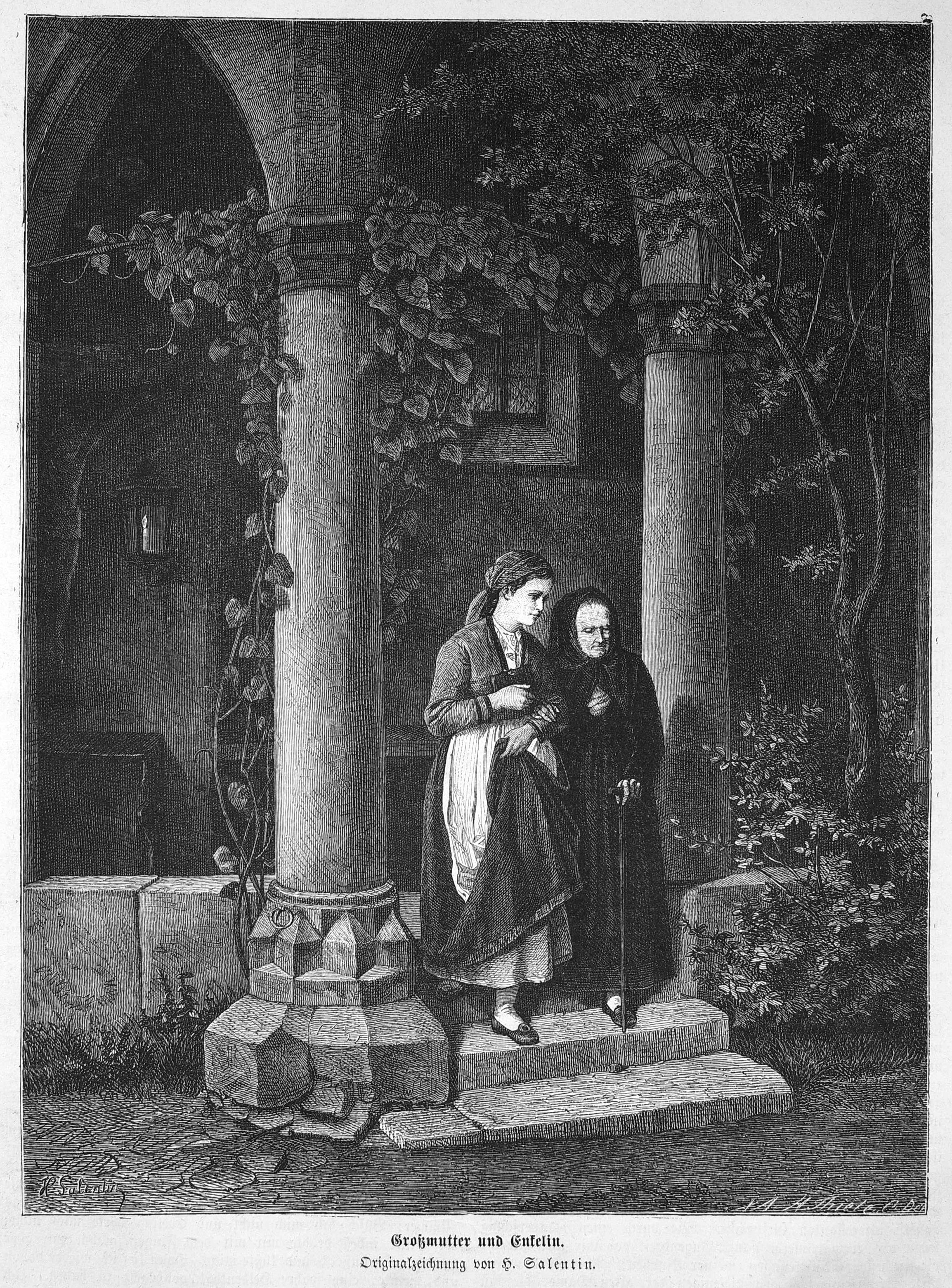 Grandmother and granddaughter.Image from page 673 of book Die Gartenlaube, 1872.